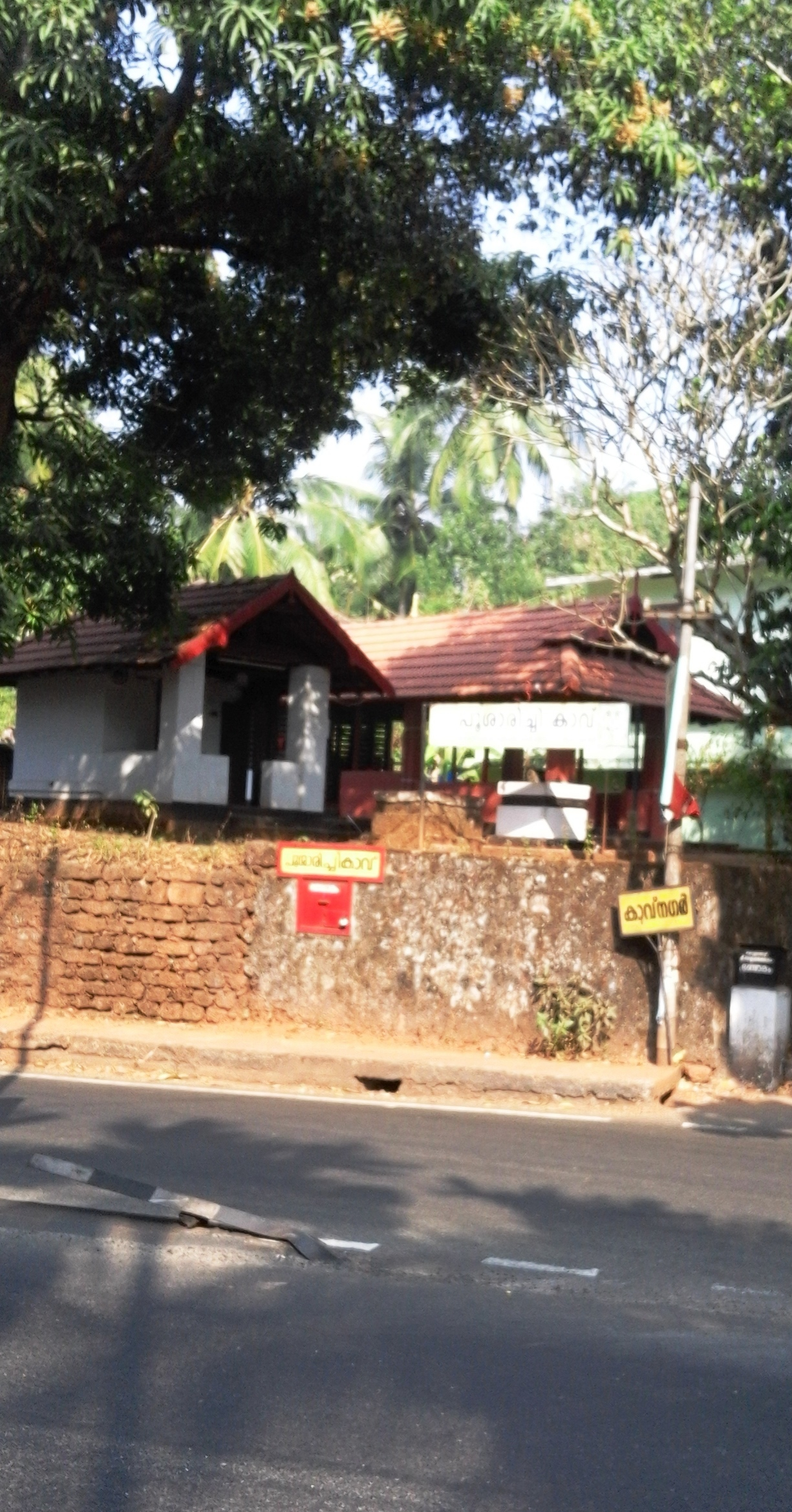 Poosharichi Kavu, Kavu Bus-stop, Thondayadu Junction, Kozhikode city, Kerala province, India.